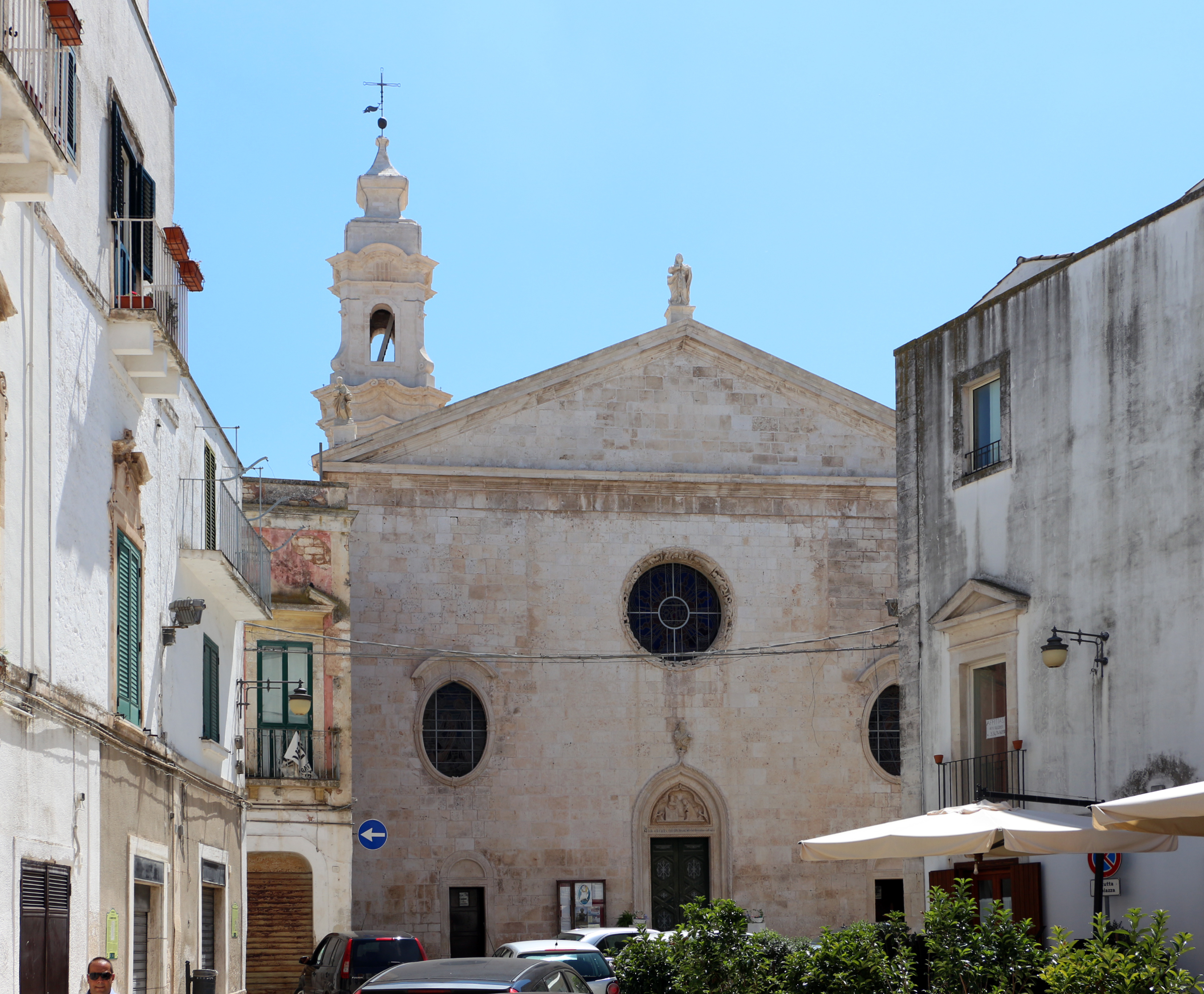 Chiesa Madre (Noci)